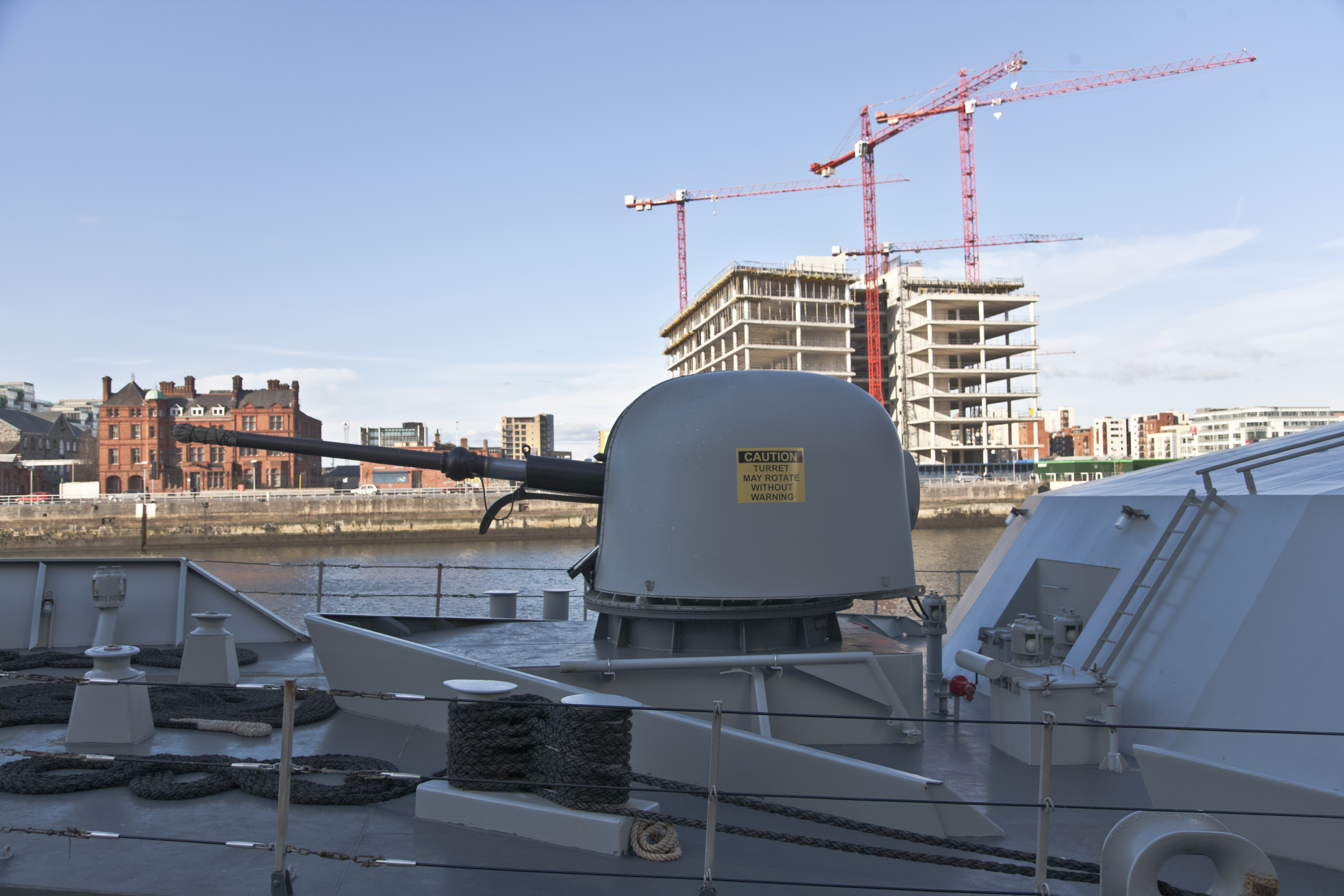 LÉ Niamh was built in Appledore Shipyards in the UK for the Naval Service. She is an improved version of her sister ship, LÉ Róisín and Naval Service engineers stood by her construction at all stages. She is built to the successful Róisín design that optimizes her patrol performance in Irish waters (which are among the roughest in the world), year round. For that reason a greater length overall (78.8m) was chosen, giving her a long, sleek appearance. Following the dictum that sailors at sea should be provided with as much comfort and dignity as the harsh environment allows, the facilities onboard include more private accommodation, a gymnasium and changing areas and storage areas. Her main armament is a 76mm OTO MELARA compact gun and RADAMEC fire control system which is tied in to the integrated bridge system. She also has a highly automated engine room. Her twin WARTSILA diesels give her efficient patrolling ability with good speed performance when required. One of Niamh most notable episodes was her trip to Asia in 2002, which was the first ever visit by an Irish warship to that part of the world and included official visits to China, Japan, Korea and Malaysia, together with a refueling stop in India and a UN resupply visit to Irish troops based in Eritrea. She also recently supported the first ever deployment of Irish troops to Liberia, in West Africa and provided transport and logistical support to the contingent that conducted reconnaissance of the port and territory prior to the arrival of the main body, serving under the United Nations.